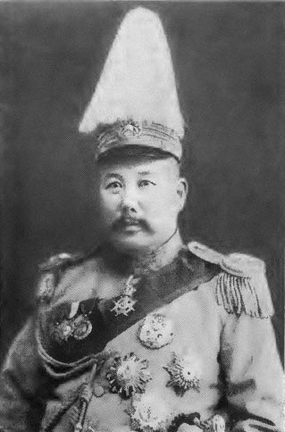 Qing dynasty,and later Republic of China Chinese muslim General Ma Fuxiang. Was a member of the Kuomintang. Born in 1876, died in 1932.